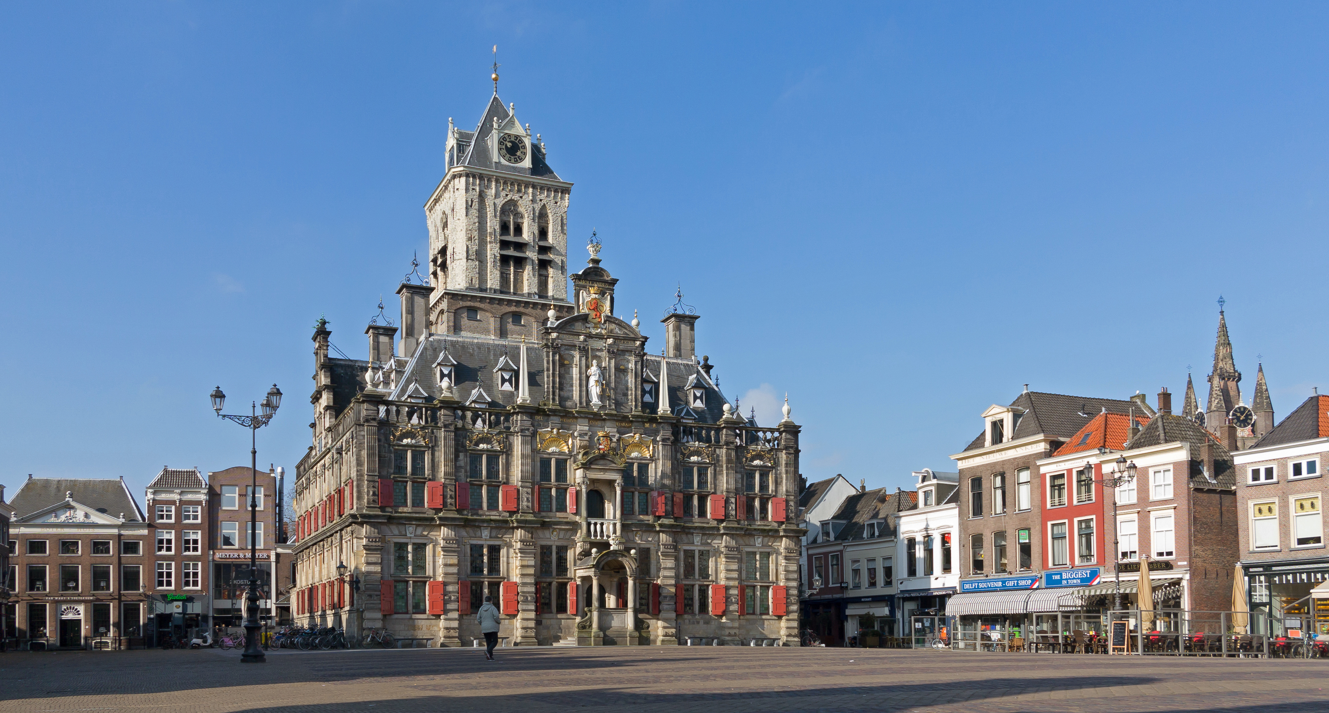 Delft, the townhall at the Markt